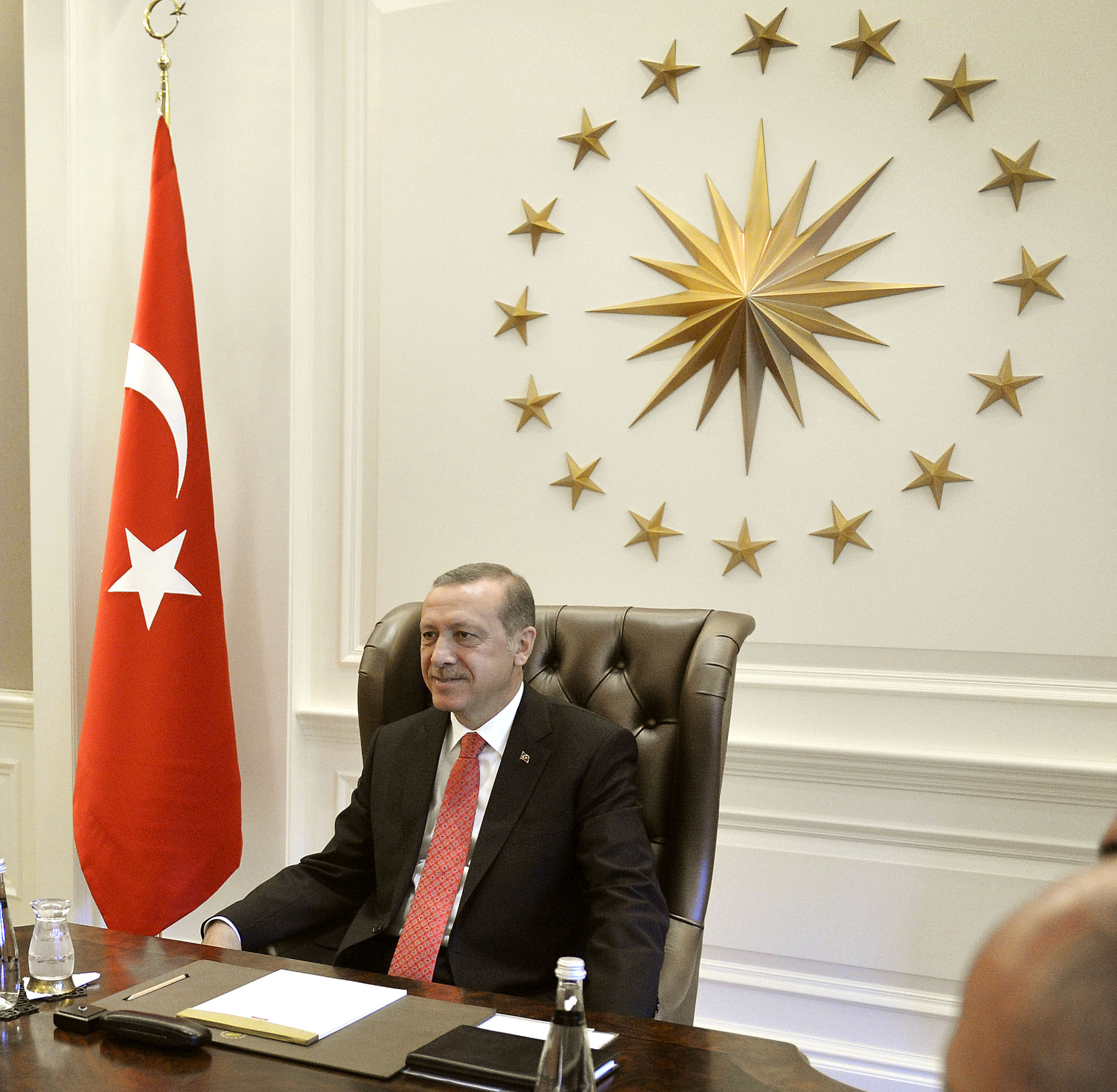 U.S. Secretary of Defense Chuck Hagel, center left, meets with Turkish President Recep Tayyip Erdogan, center right, at the Turkish presidential palace in Ankara, Turkey, Sept. 8, 2014.